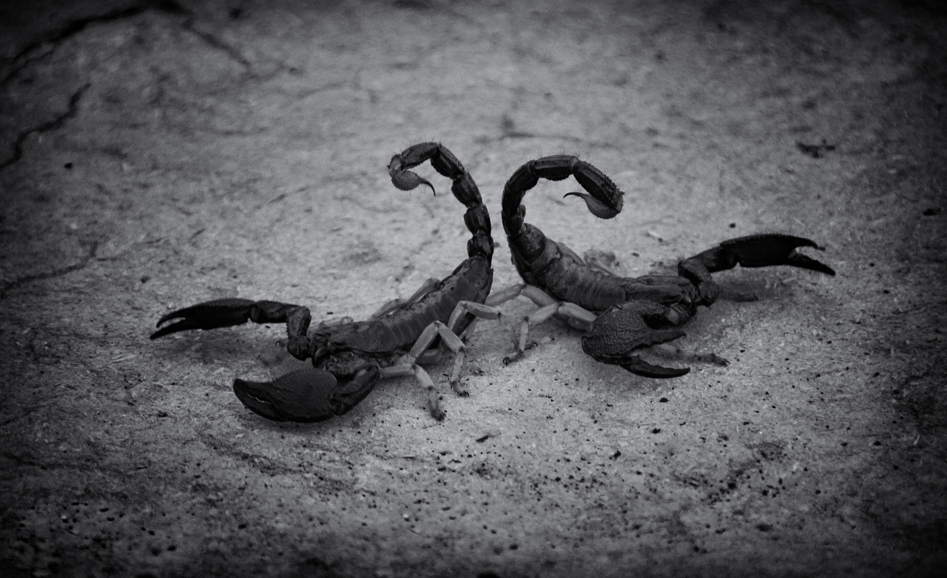 Two scorpions – A sign of death in Tharparkar District, Sindh, Pakistan